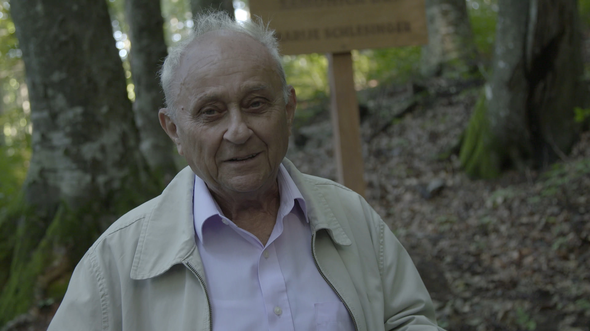 slavko goldstein